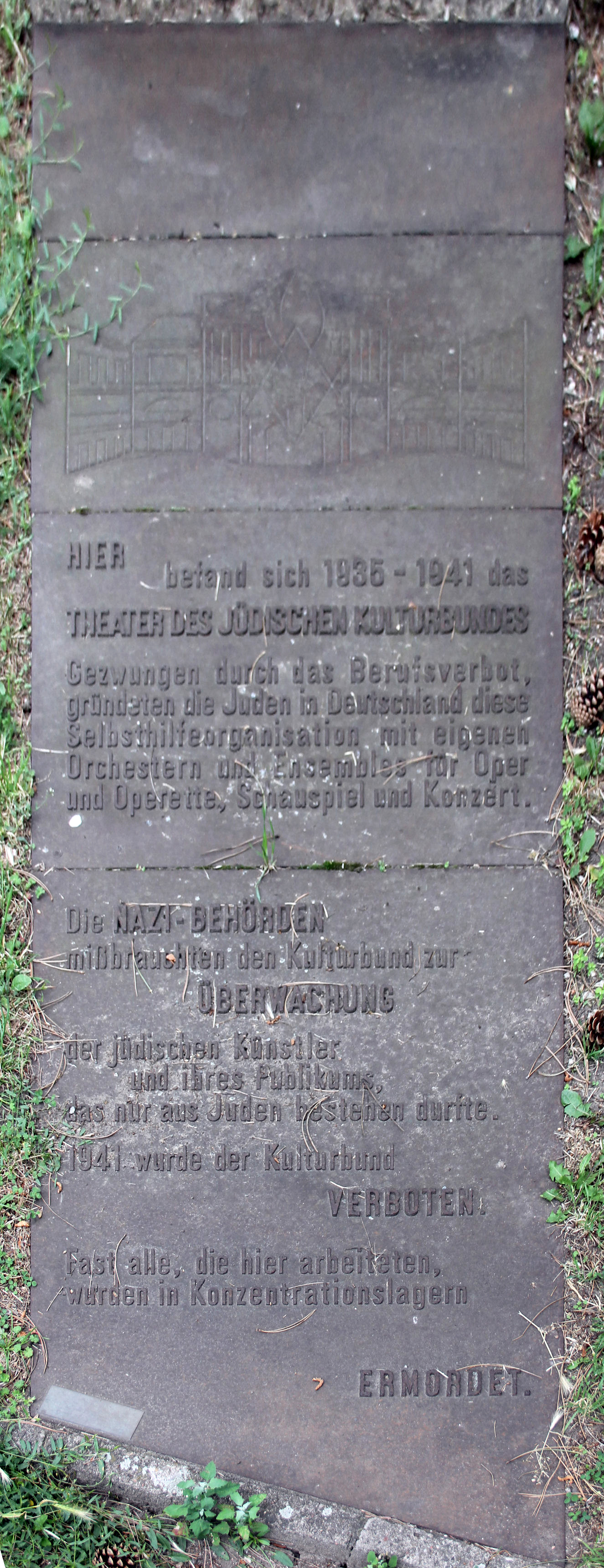 Memorial plaque, Theater des jüdischen Kulturbundes, Kommandantenstraße 58, Berlin-Kreuzberg, Germany